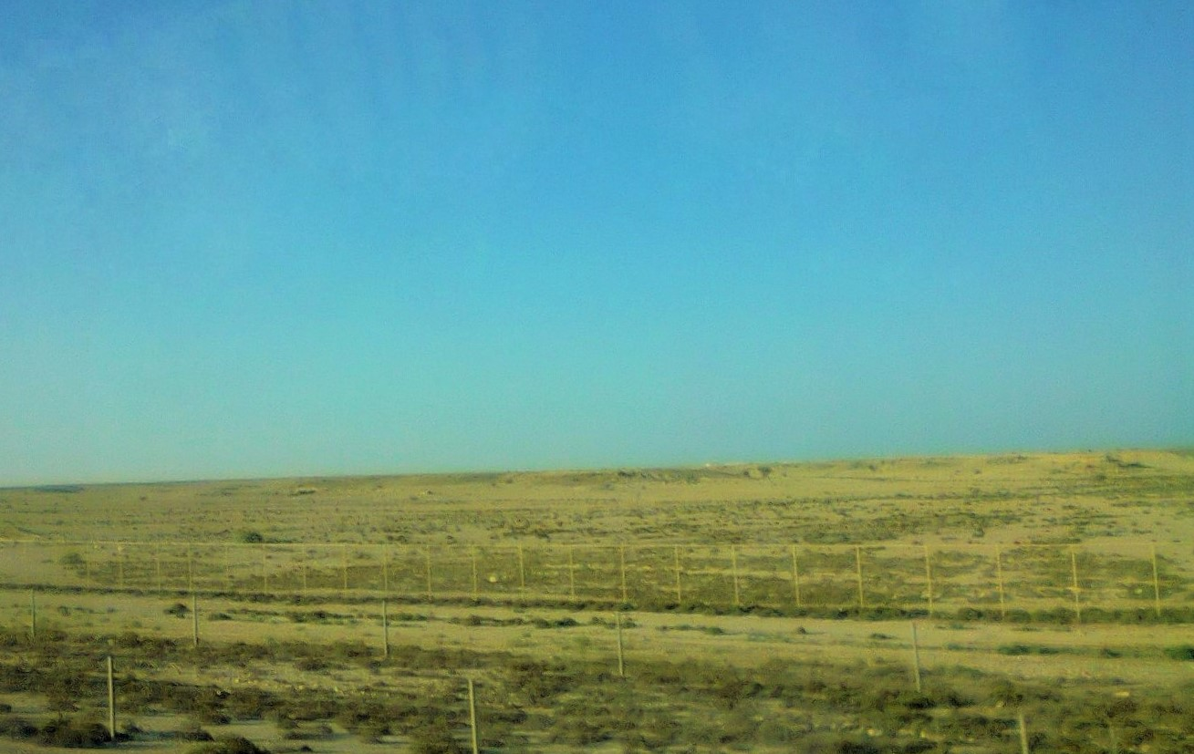 Deserts of Qatar,lusail